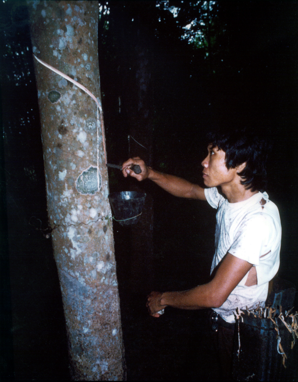 Location: Basilan Island; Mindanao, Philippines. Date: 1984 Photographer: Randy C. Bunney A plantation worker cuts into a rubber tree to harvest latex used as a main ingredient in making natural rubber.